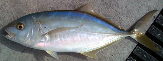 From Key West